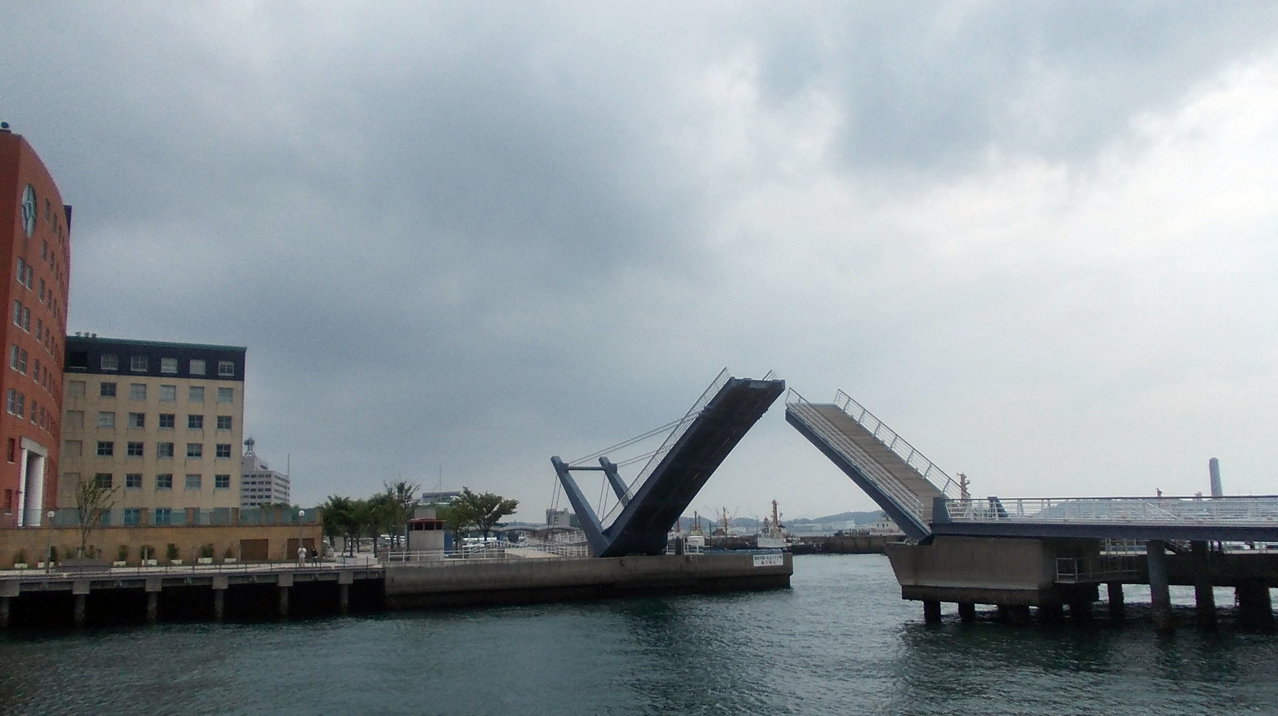 Blue Wing Moji, a large drawbridge by the sea in Mojiko Retro completed in 1993. It is raised six times a day.